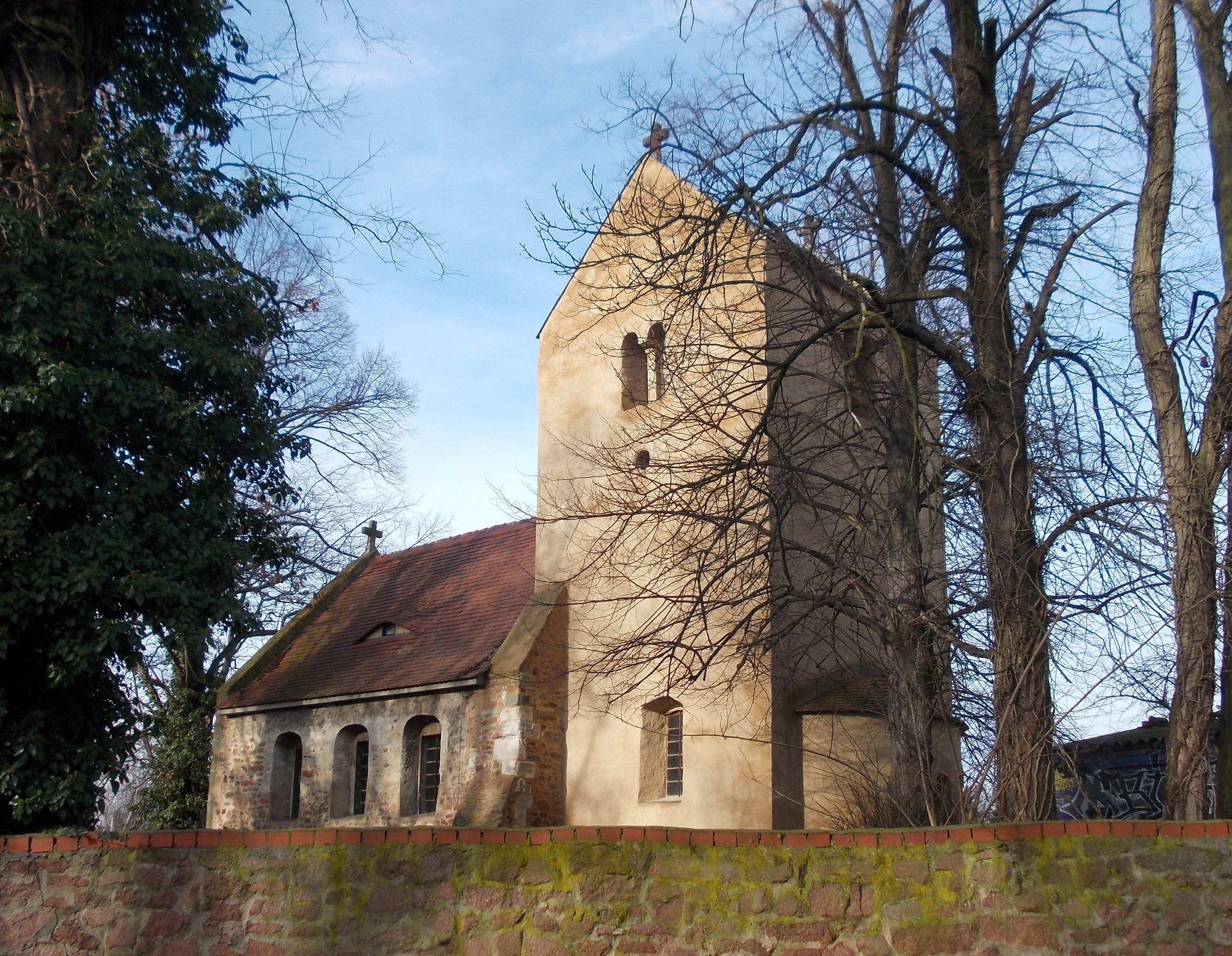 Sylbitz church (Petersberg, district: Saalekreis, Saxony-Anhalt)